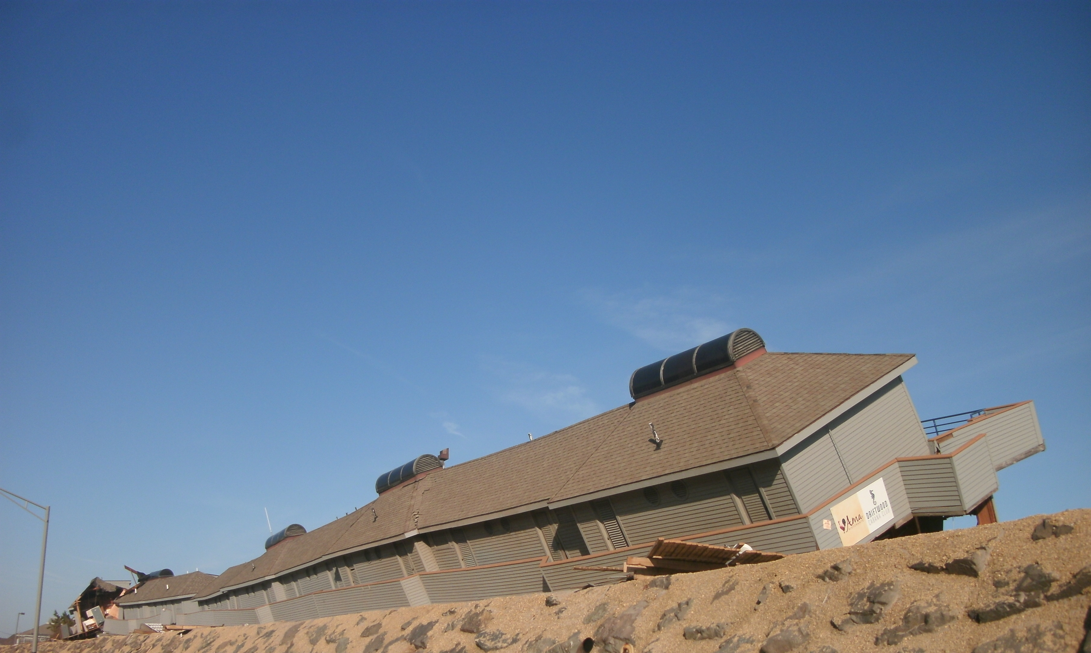 Driftwood Cabana Club along State Route 36 (Ocean Avenue) in the borough of Sea Bright, New Jersey was ripped off its stilt foundation during Hurricane Sandy.